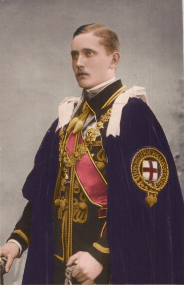 Prince Arthur of Connaught in the robes of the Order of the Garter, coloured from black and white